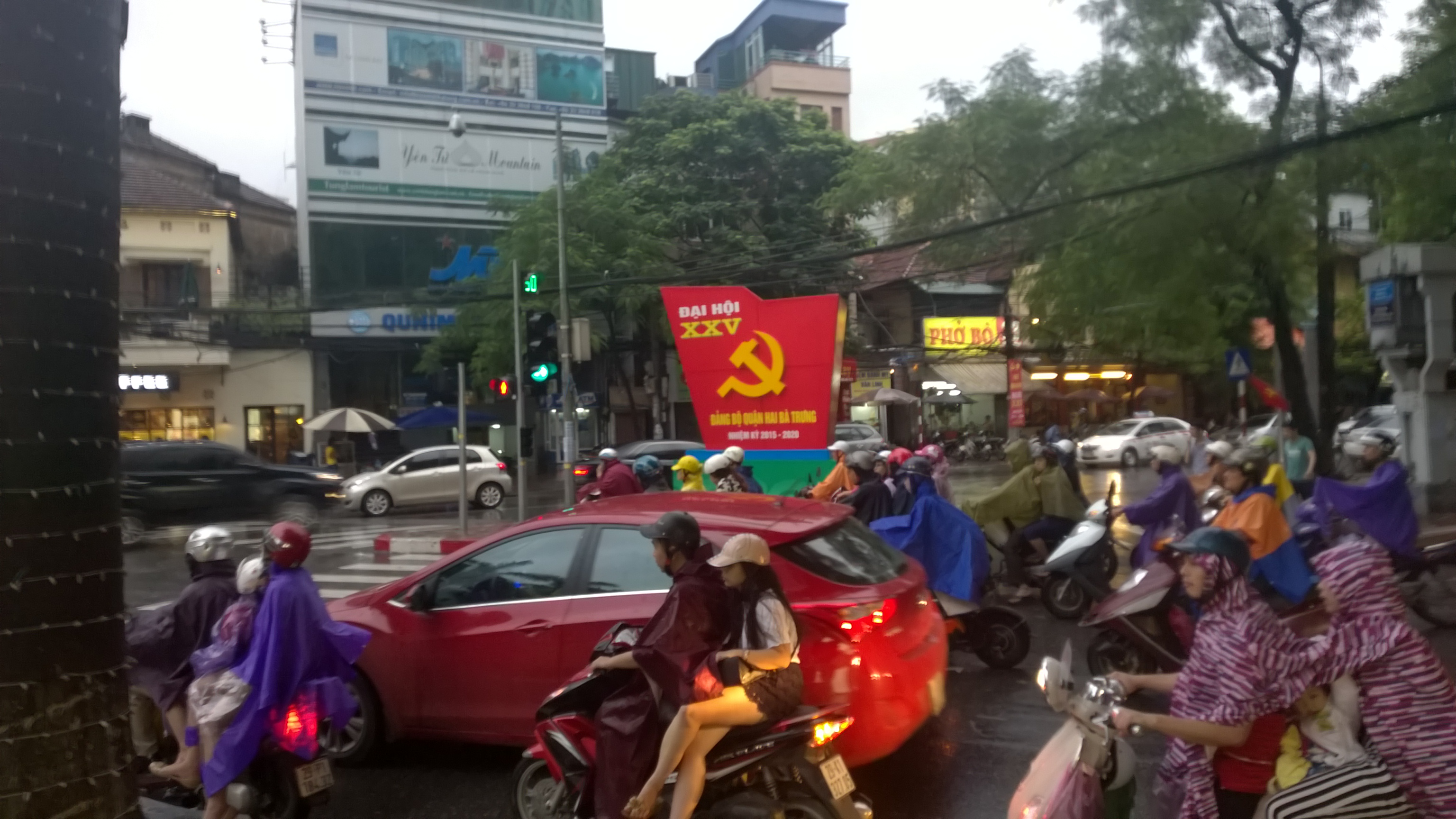 Bach Mai Communist propaganda in 2015.